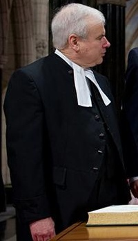 Based on Image:Barack Obama signs Parliament of Canada guestbook 2-19-09.JPG.